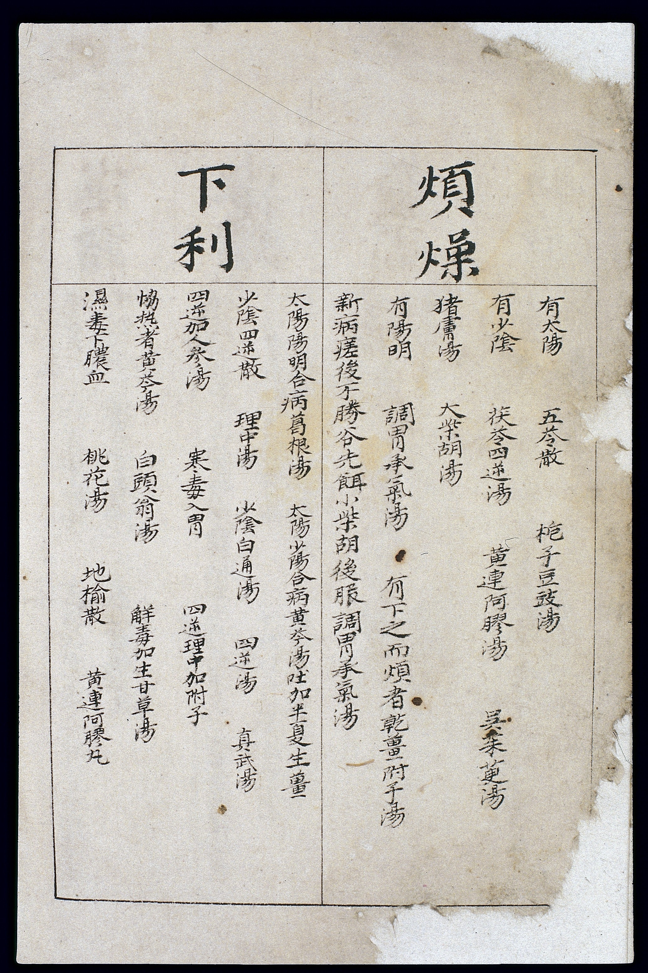 Medication chart: Distress and restlessness, diarrhoea. From a manuscript copy ofShanghan diandian jin shu(The Gold-dust Book of Cold Damage) dated '1st year of the Zhengyuan reign period of the Yuan dynasty' (1341), section entitledShanghan diandian jin yongyao muji(Cold Damage Gold-Dust Repertory of Medication).The text states: Distress and restlessness (fanzao) originating in the Greater Yang channel (taiyang jing) is normally treated with Five-Drug powder (wu ling san), Cape jasmine and black bean decoction, etc. If it originates in the Lesser Yin channel (shaoyin jing), it is generally treated with Four Retrograde/Cold Extremities poria decoction (fuling sini tang), decoction of coptis and donkey-hide glue (huanglian ejiao tang), etc. If it originates in the Yang Brightness channel (yangming jing), it is generally treated with Stomach Regulating and Qi Supporting decoction (tiao wei cheng qi tang).Diarrhoea associated with a combined syndrome of the Greater Yang and Yang Brightness channels is generally treated with arrowroot decoction (ge gen tang). Where it is associated with a combined syndrome of the Greater and Lesser Yang channels, it is generally treated with scutellaria (huangqin) decoction. If it is accompanied by vomiting, pinellia (banxia) and fresh ginger should be given in addition. Where diarrhoea originates in the Lesser Yin channel (shaoyin jing), Centre-Regulating decoction (li zhong tang) or True Warrior decoction (zhen wu tang) should be given. Where it is due to cold poisons entering the stomach, Four Retrograde Centre-Regulating decoction (sini li zhong tang) with aconite should be given. In case of diarrhoea containing blood and pus due to warm poisons, peach-blossom decoction, coptis and donkey-hide glue decoction (huanglian ejiao tang), etc. should be given. Illustrated manuscript